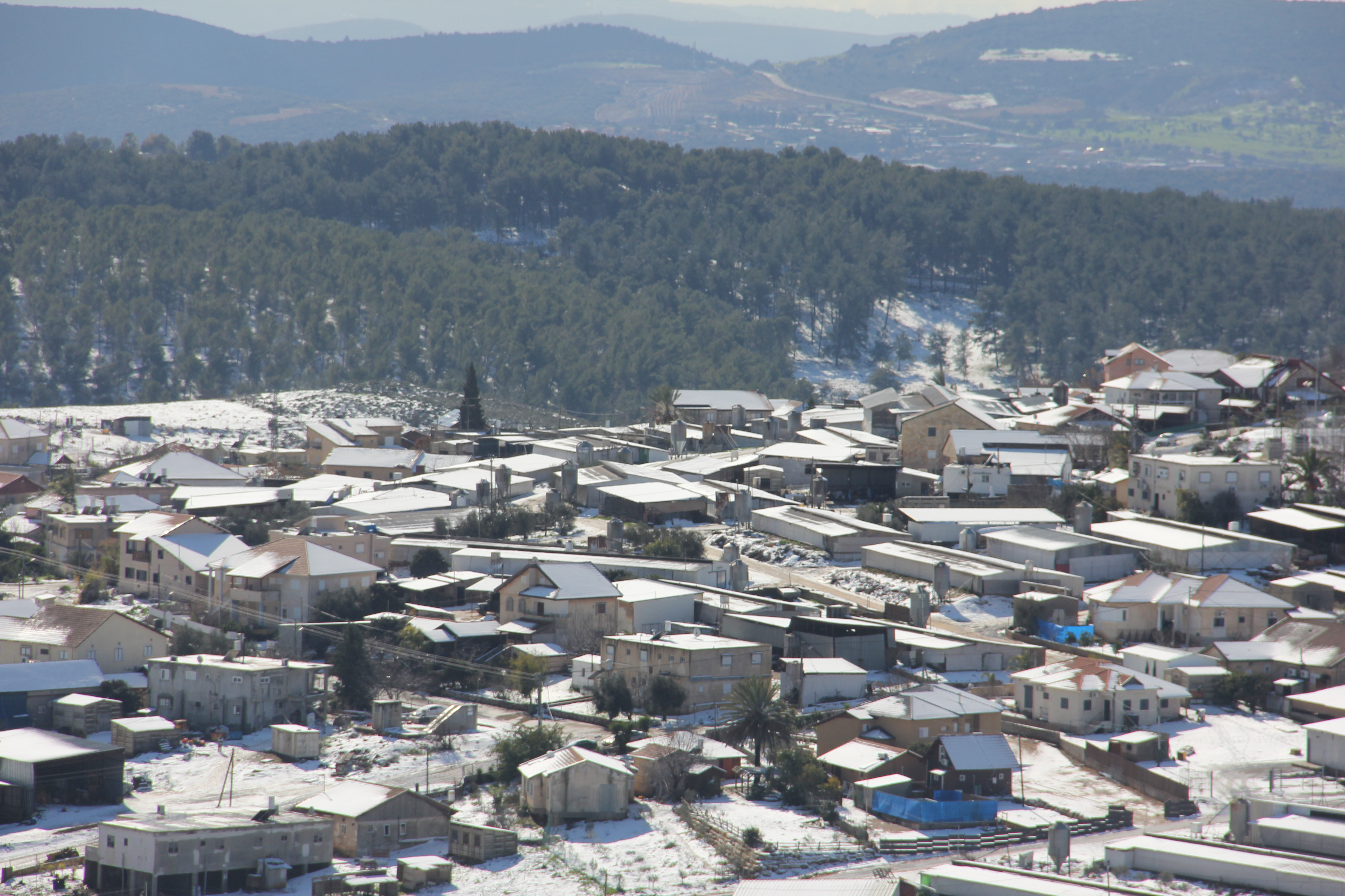 moshav dalton in snow